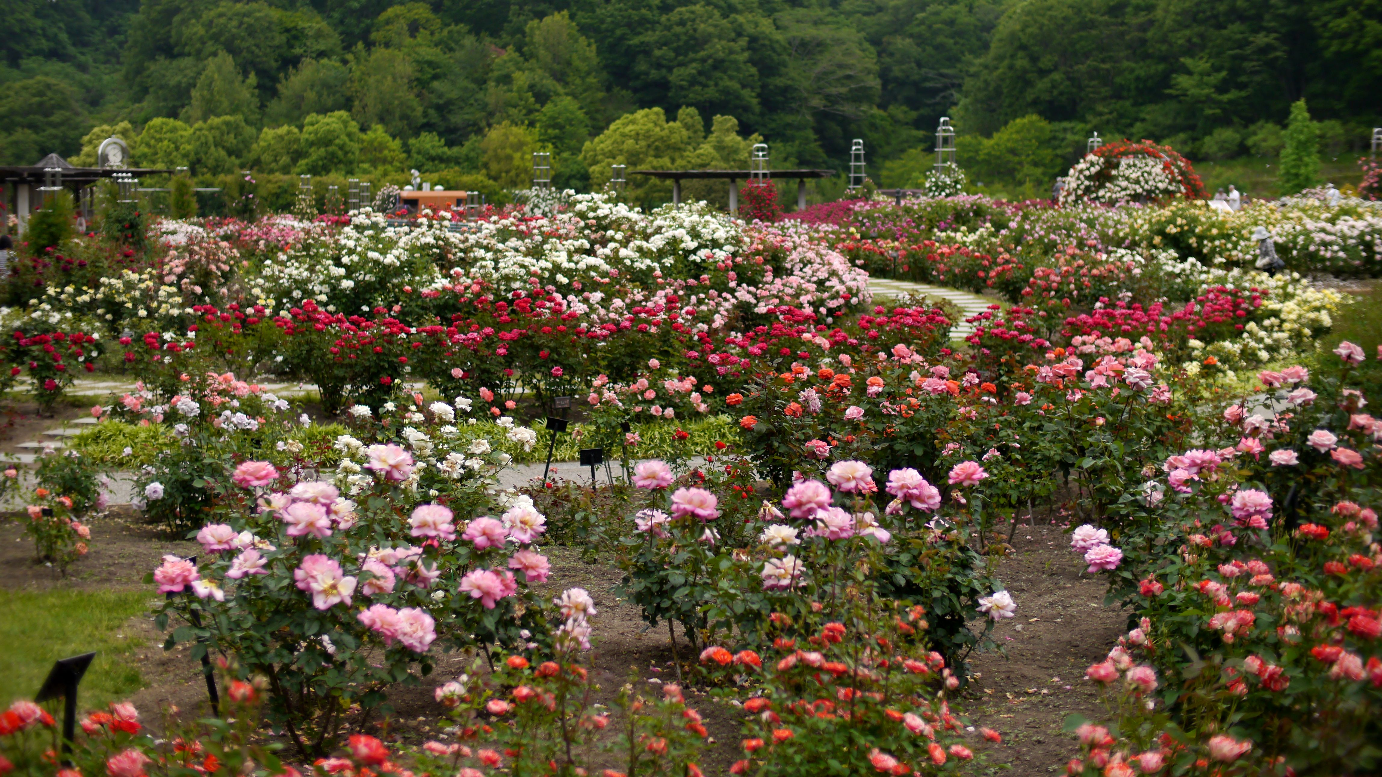 The rose garden of Flower festival commorative park, 花フェスタ記念公園 世界のバラ園